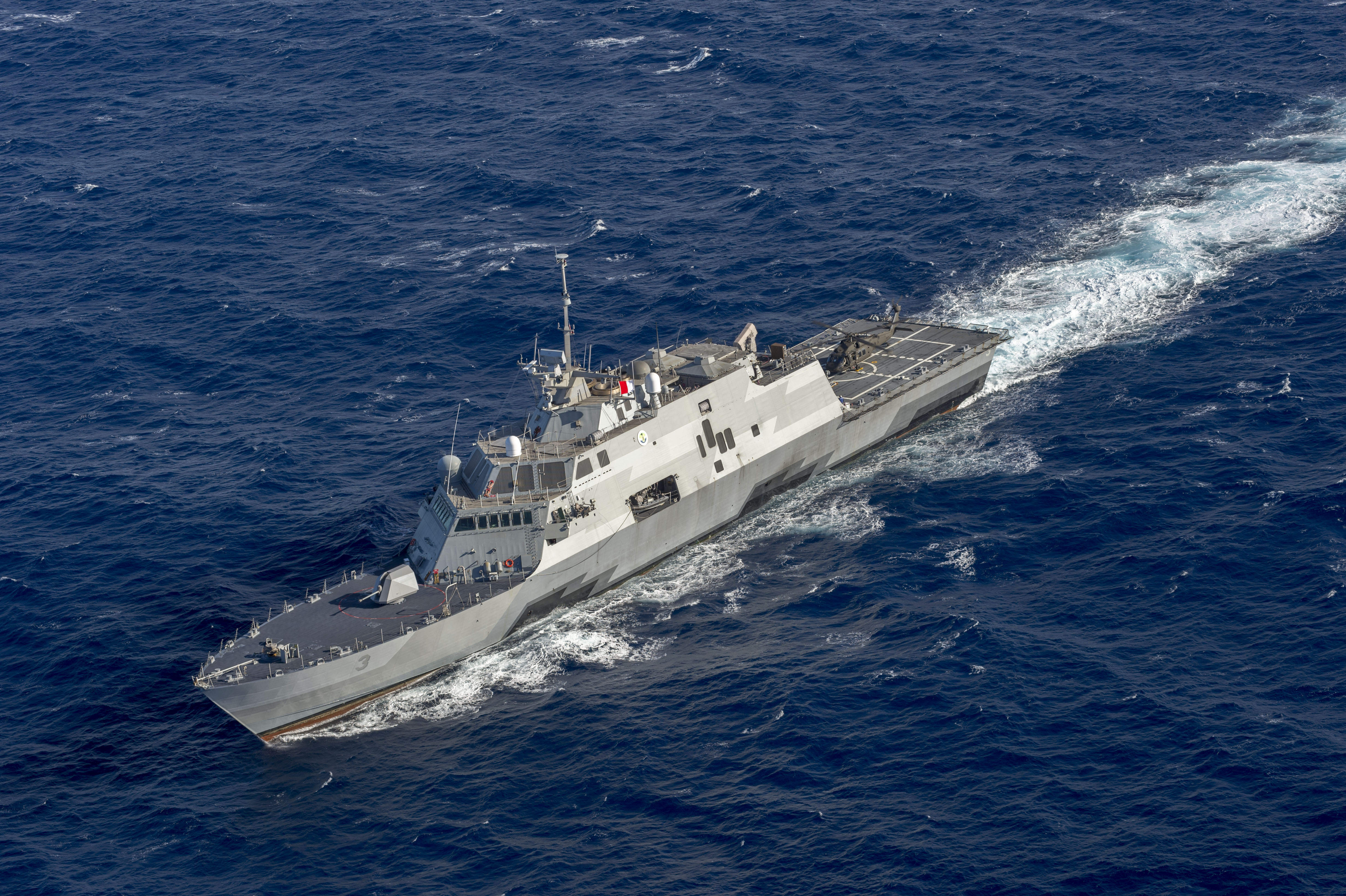 The U.S. Navy littoral combat ship USS Fort Worth (LCS-3) underway in the Pacific Ocean. Fort Worth was providing a sea-going platform for a Sikorsky UH-60M Black Hawk helicopter from the U.S. Army 25th Combat Aviation Brigade to conduct deck landing qualifications off the coast of Hawaii.